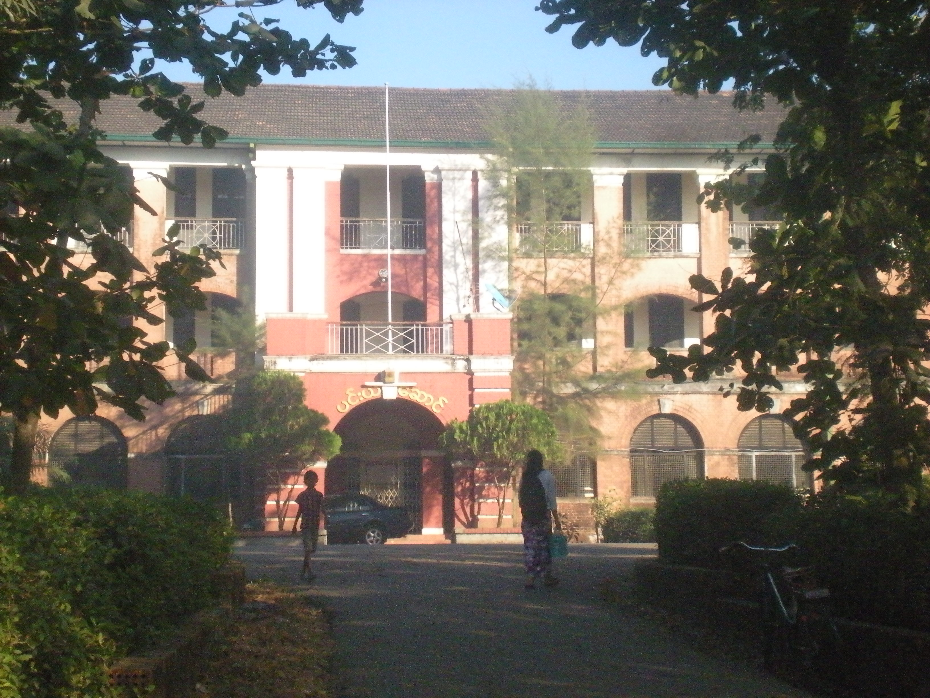 Pinya hall